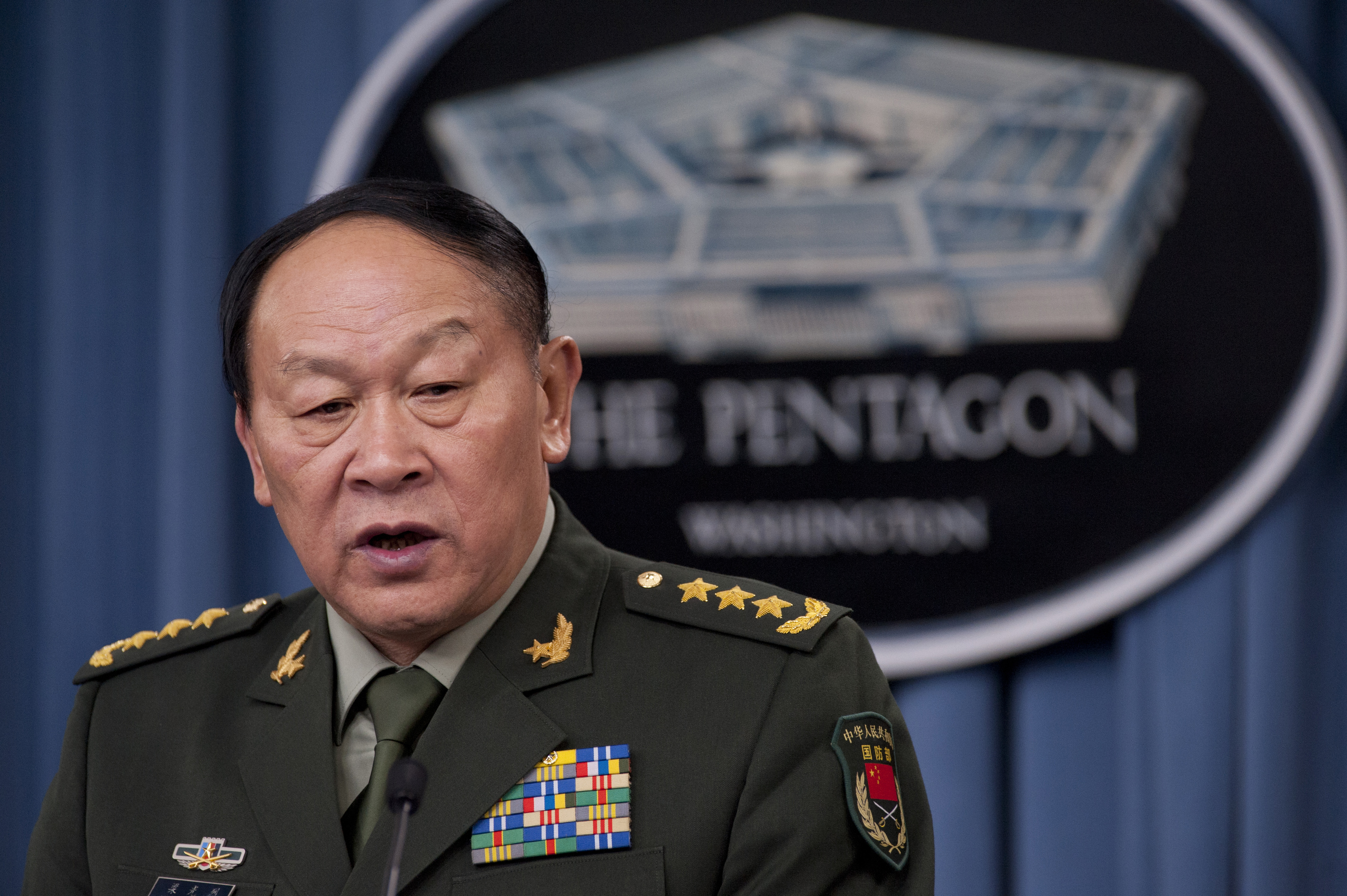 Chinaâ€™s Minister of National Defense, Gen. Liang Guanglie answers a question during a joint press conference with Secretary of Defense Leon E. Panetta in the Pentagon on May 7, 2012.